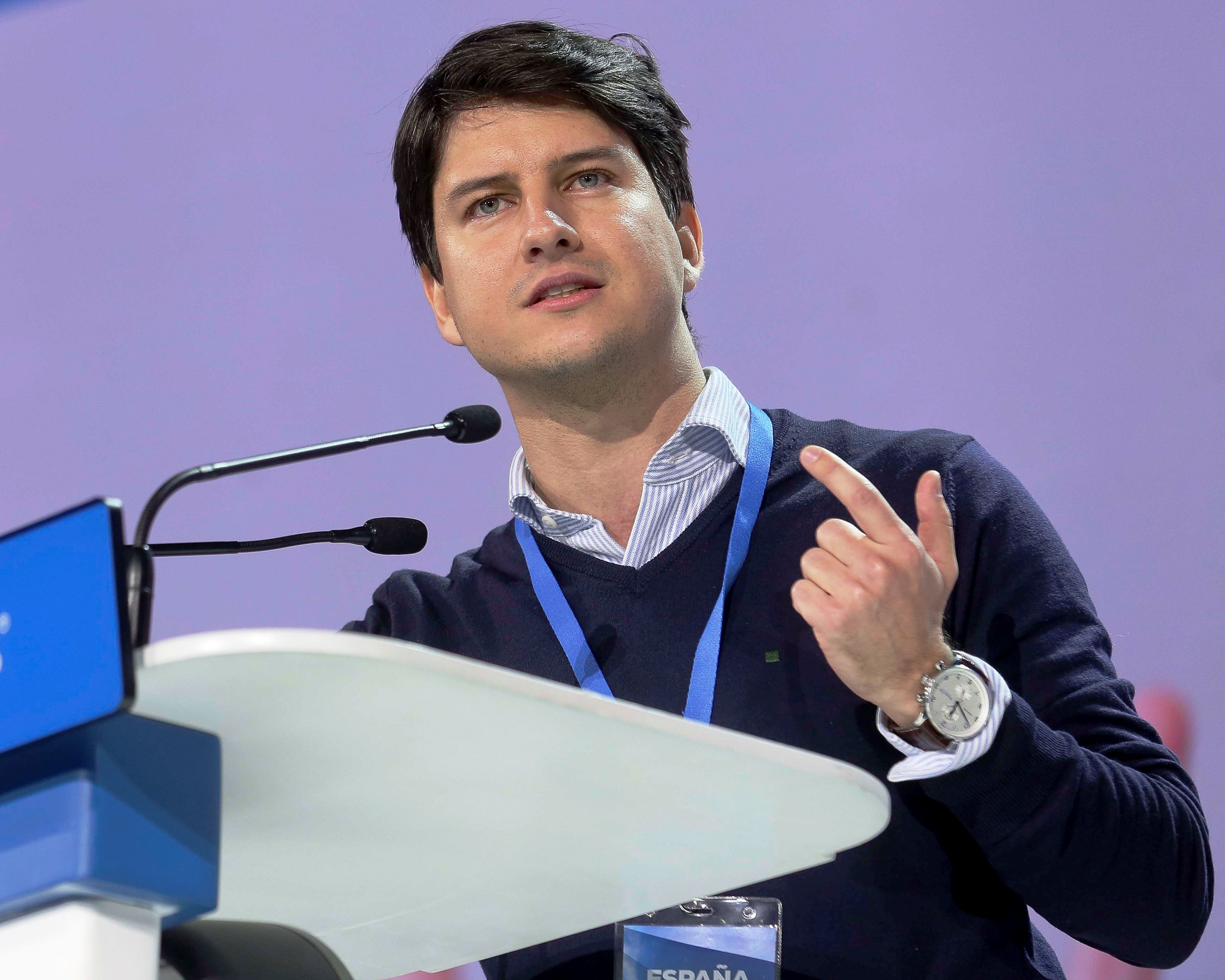 Diego Gago Bugarín, presidente de Nuevas Generaciones de España y Diputado por Pontevedra